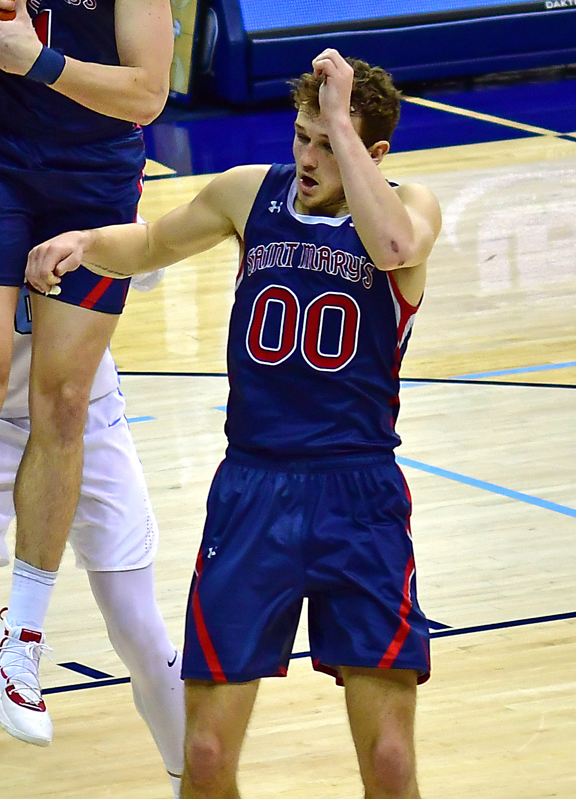 St. Mary's vs. San Diego